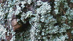 Crustose and Squamulous lichens